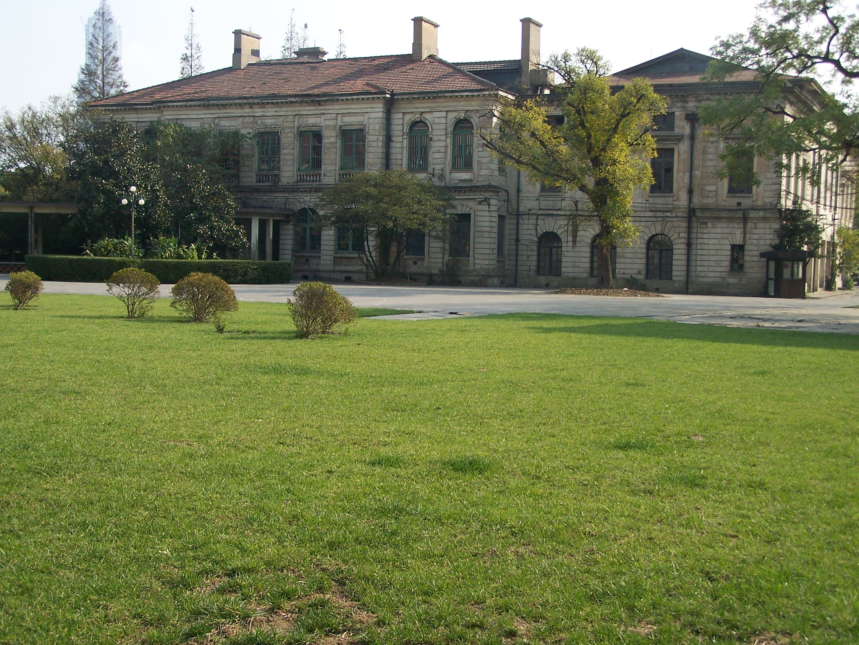 No. 33 of the Bund